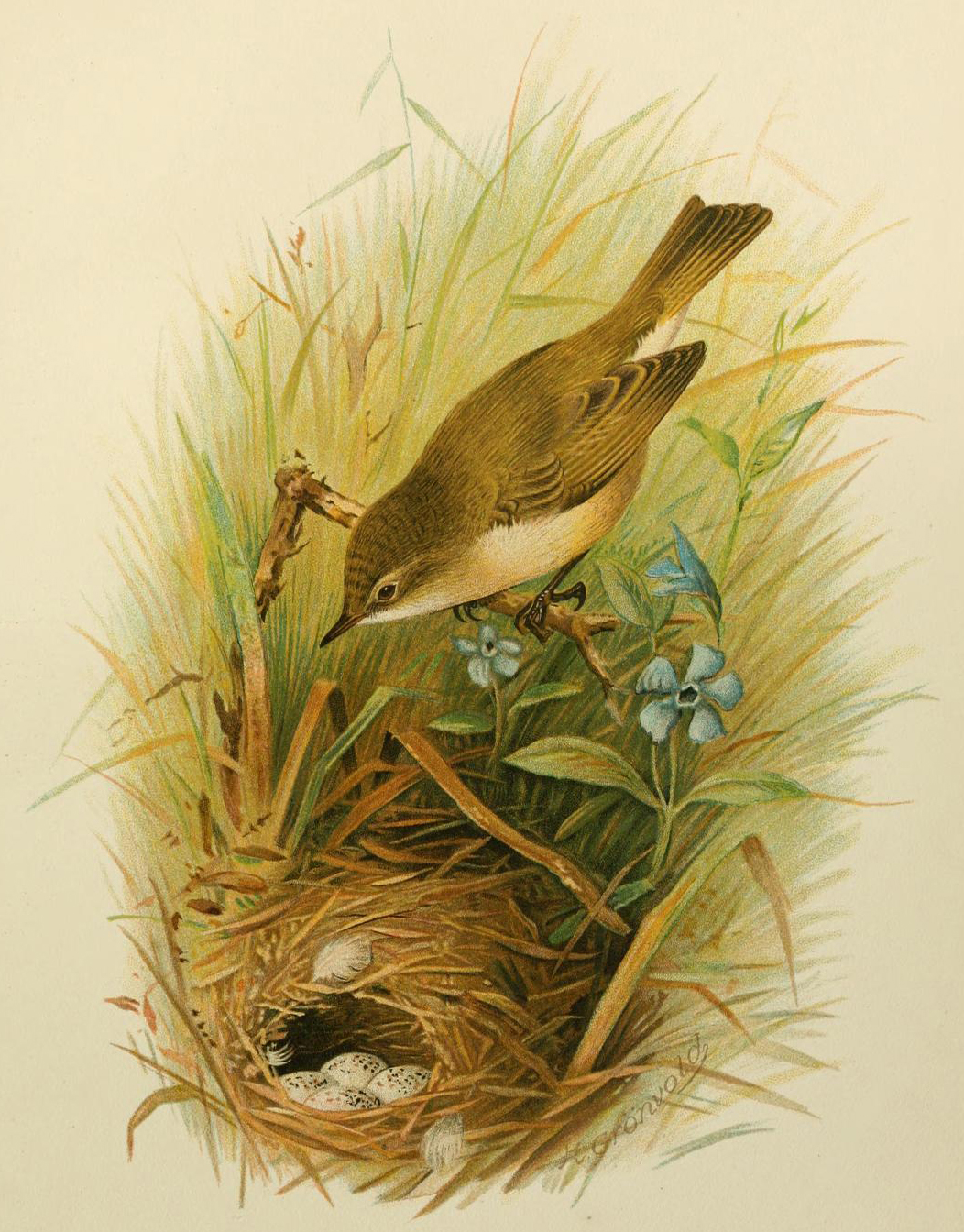 An illustration of a Common Chiffchaff by its nest by Henrik Grönvold